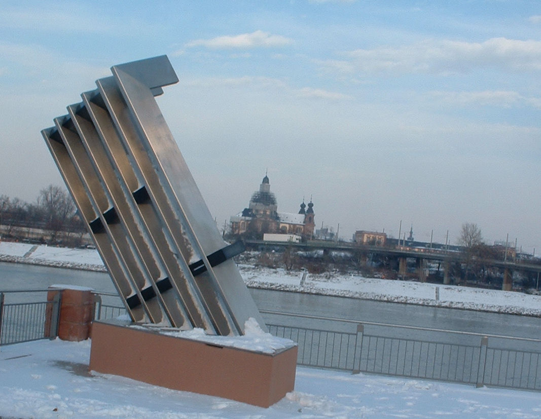 monument of the former "Rheinschanze" in Ludwigshafen, Germany